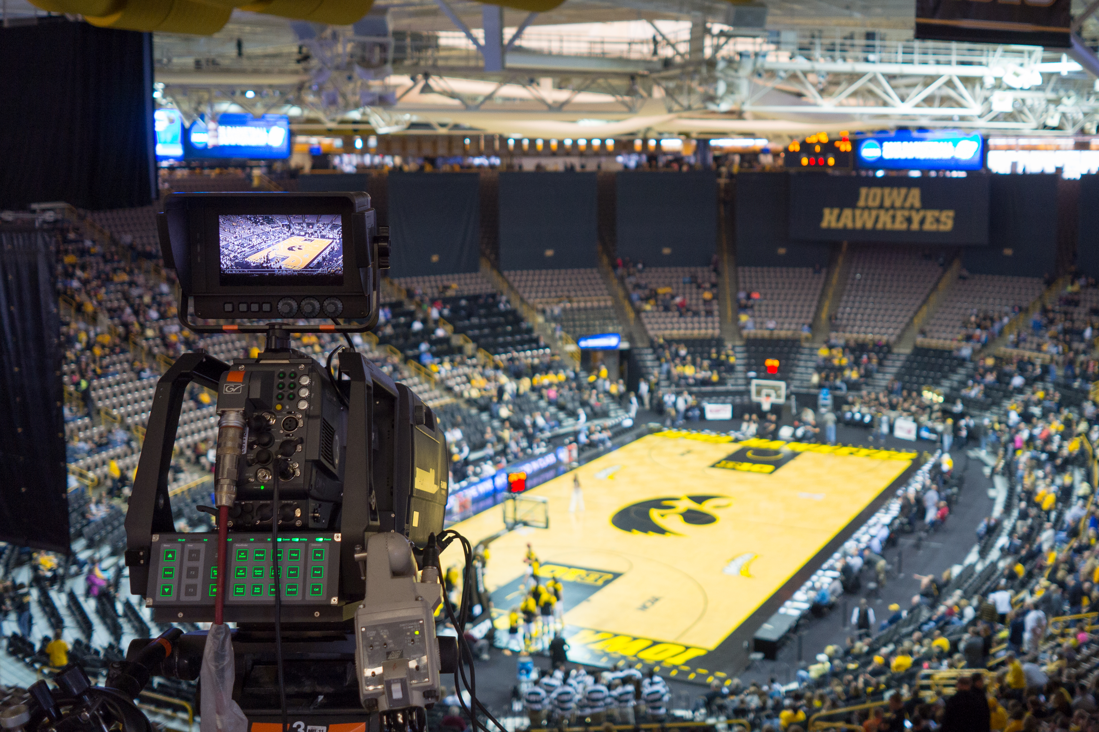 One of the ESPN cameras ready for the start of the game. Photos from the second round NCAA women's basketball tournament game between the University of Iowa and University of Miami. The Iowa Hawkeyes beat the Miami Hurricanes 88-70 to advance to the Sweet Sixteen.